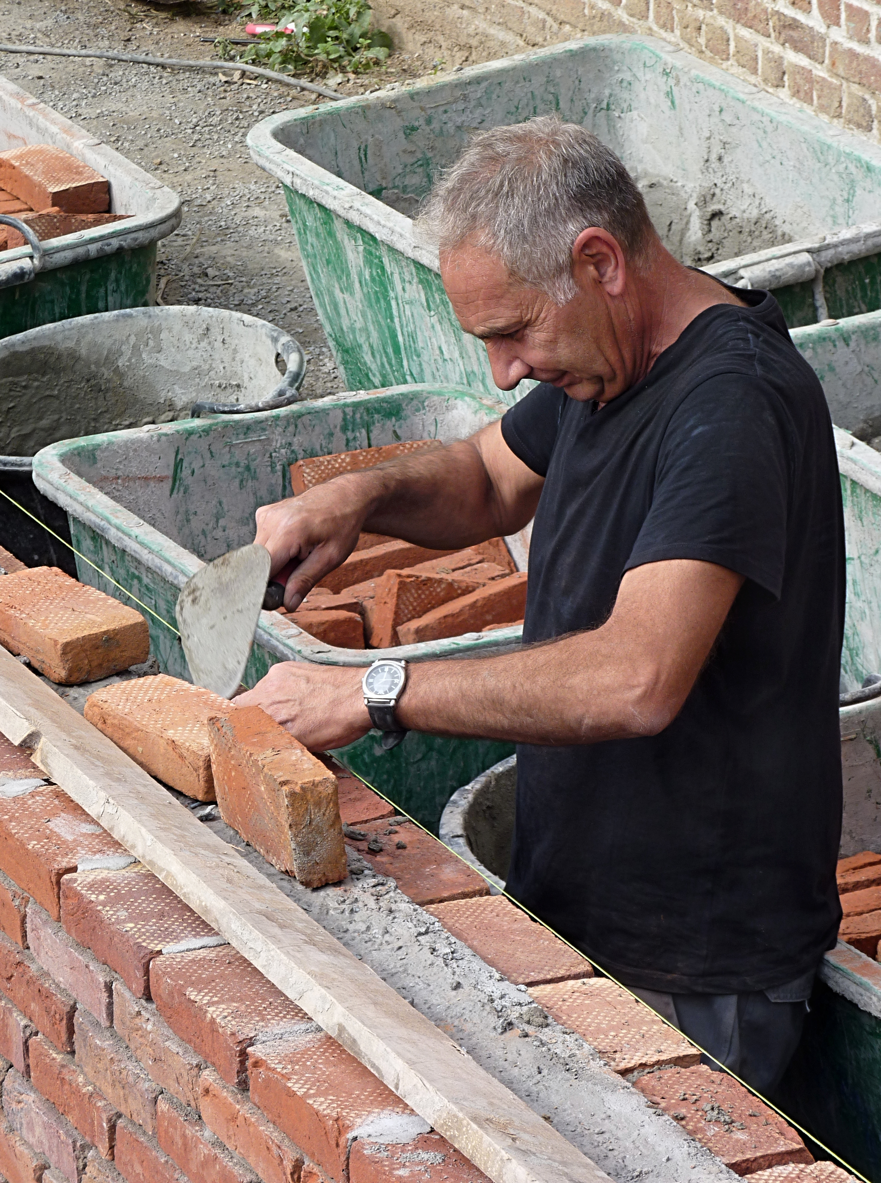 Bricklayer or mason at work on a construction site in Belgium.